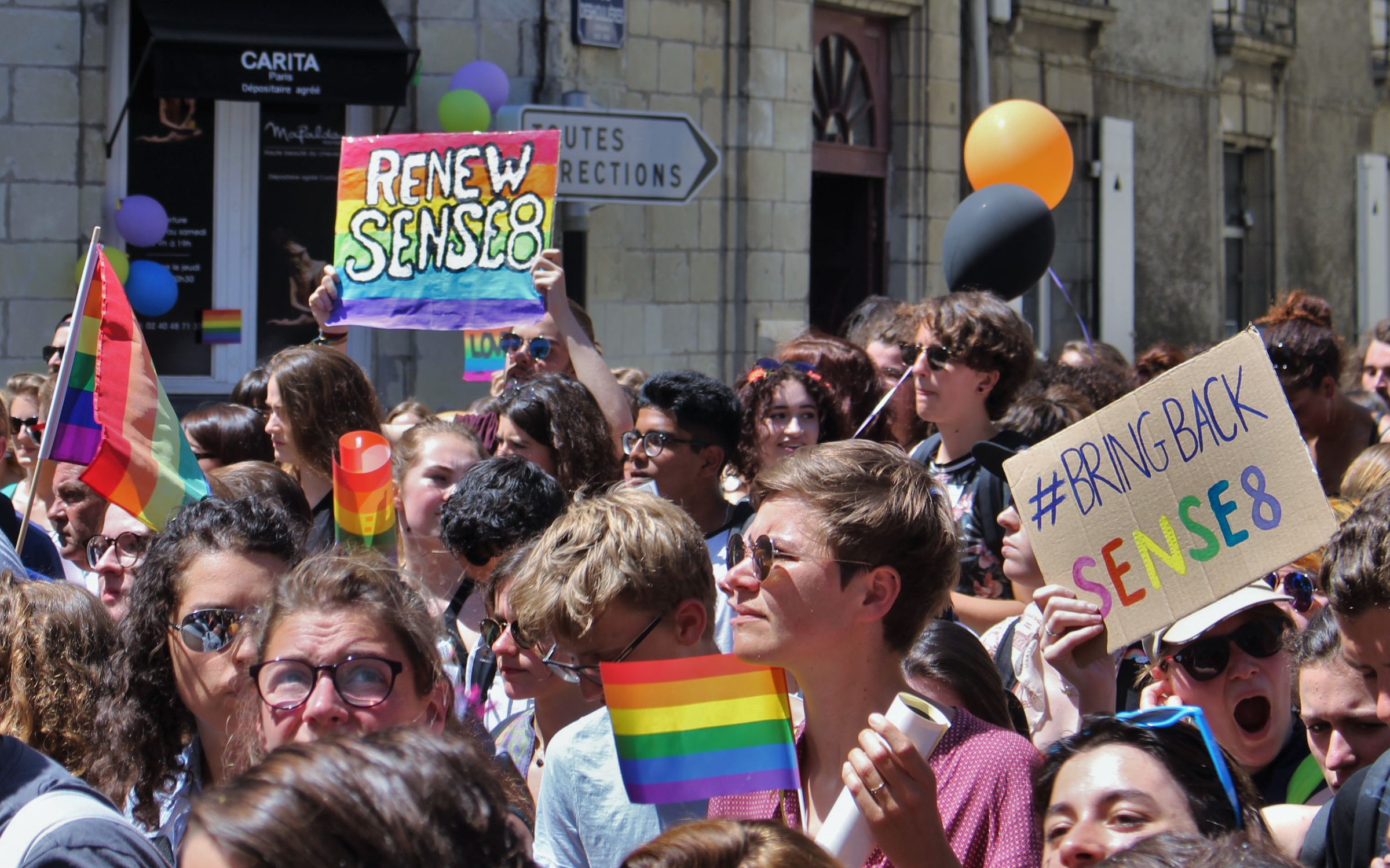 Fans on the Netflix show Sense8 which features LGBT characters and themes, took the opportunity to march during the Gay Pride 2017 of Nantes, France, with signs about renewing the recently cancelled show.